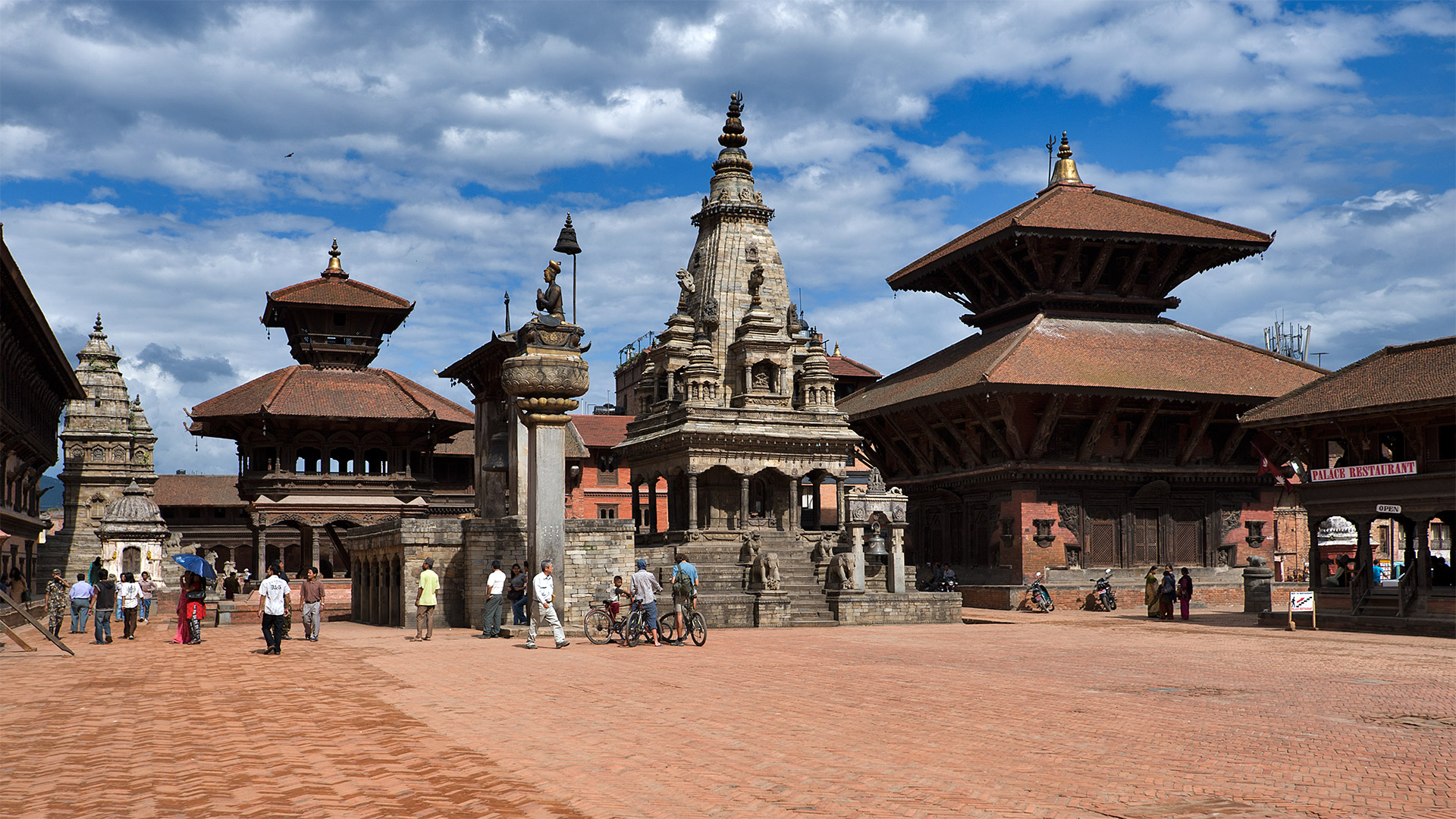 Nepal Bhaktapur 66